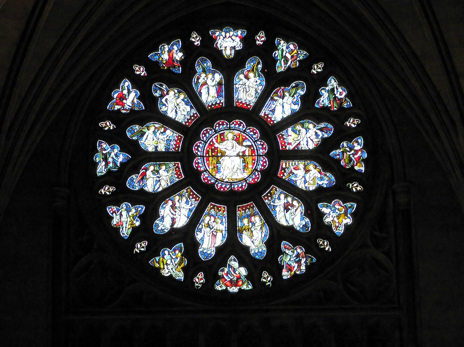 Bristol Cathedral (England) rose window, at the western end of the nave.